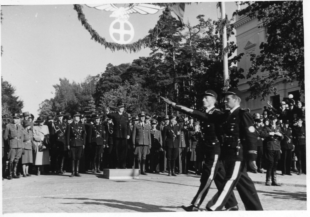 Photo from "Borgartinget", a political propaganda rally of Nasjonal Samling (NS), Quisling's Norwegian Nazi party before and during World War II, held in Sarpsborg in German occupied Norway on June 20-21, 1942, with the Hirden, uniformed party members organized in paramilitary troops, parading through the town, etc.